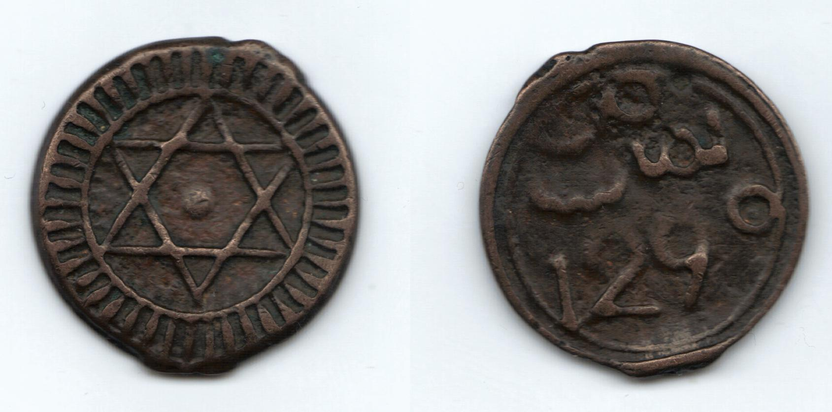 A 4 Falus coin from Morocco, dated AH 1290 (1873/4 CE). Ø 28mm. Fes Mint. Standard Catalog Number: C# 166.1